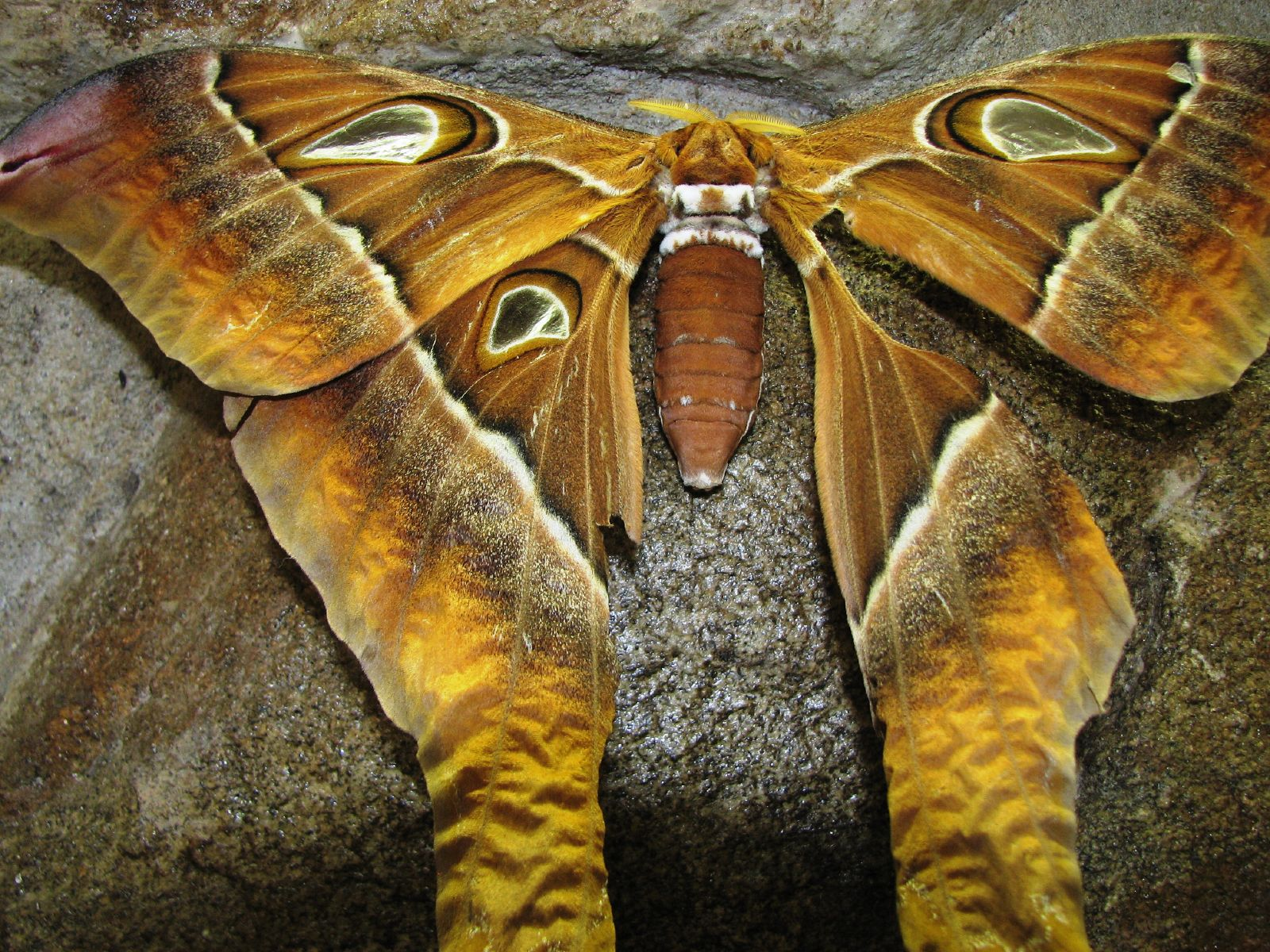 Hercules Moth (Coscinocera hercules)